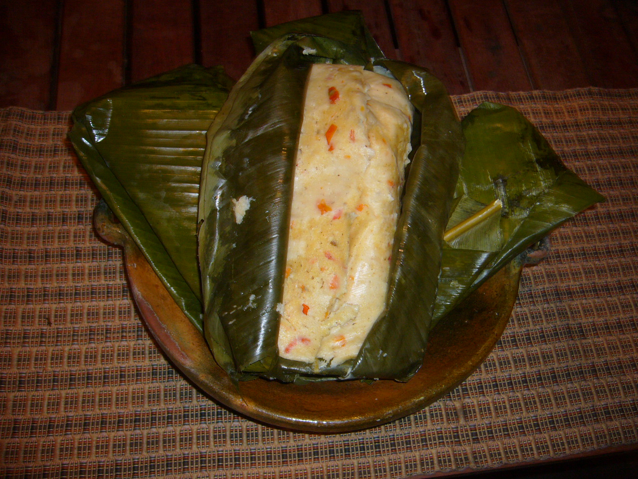 Gourmet tamal for traveling. Prepared with corn, olive oil, carrots. A variation from the regular and more humble tamal de viaje